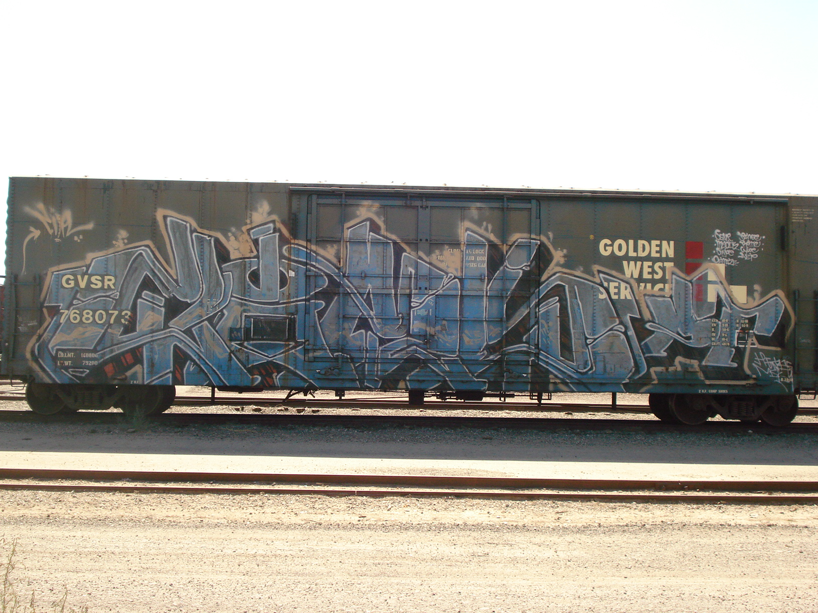 Top to Bottom graffiti on a train in California